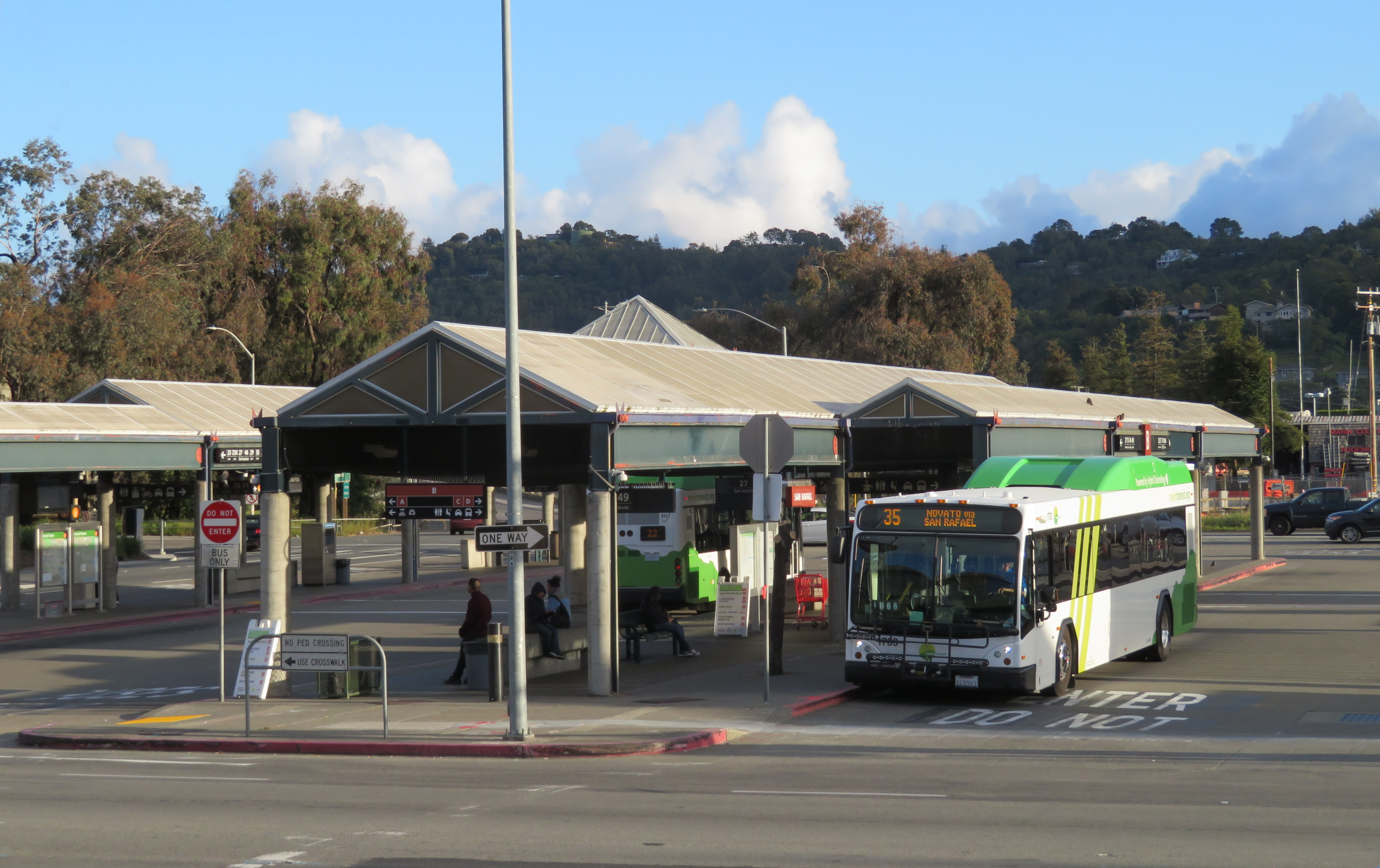 Marin Transit route 35 bus at the San Rafael Transit Center in April 2018